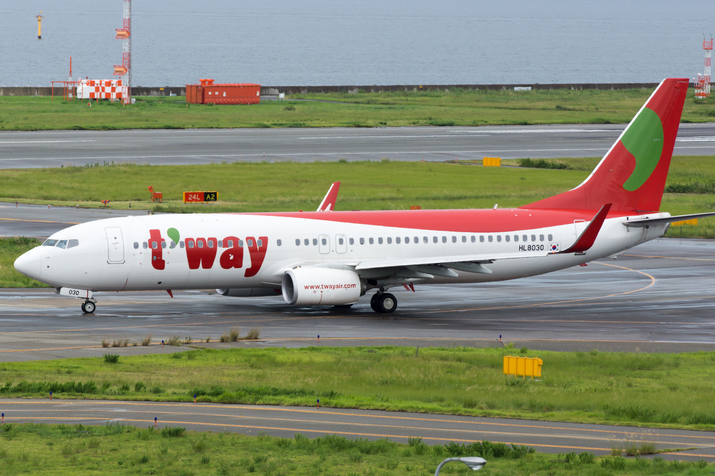 T'Way Airlines / 티웨이항공 / ティーウェイ航空 Boeing 737-8Q8 HL8030 TW242, Departed to Daegu Osaka Kansai Int'l Airport